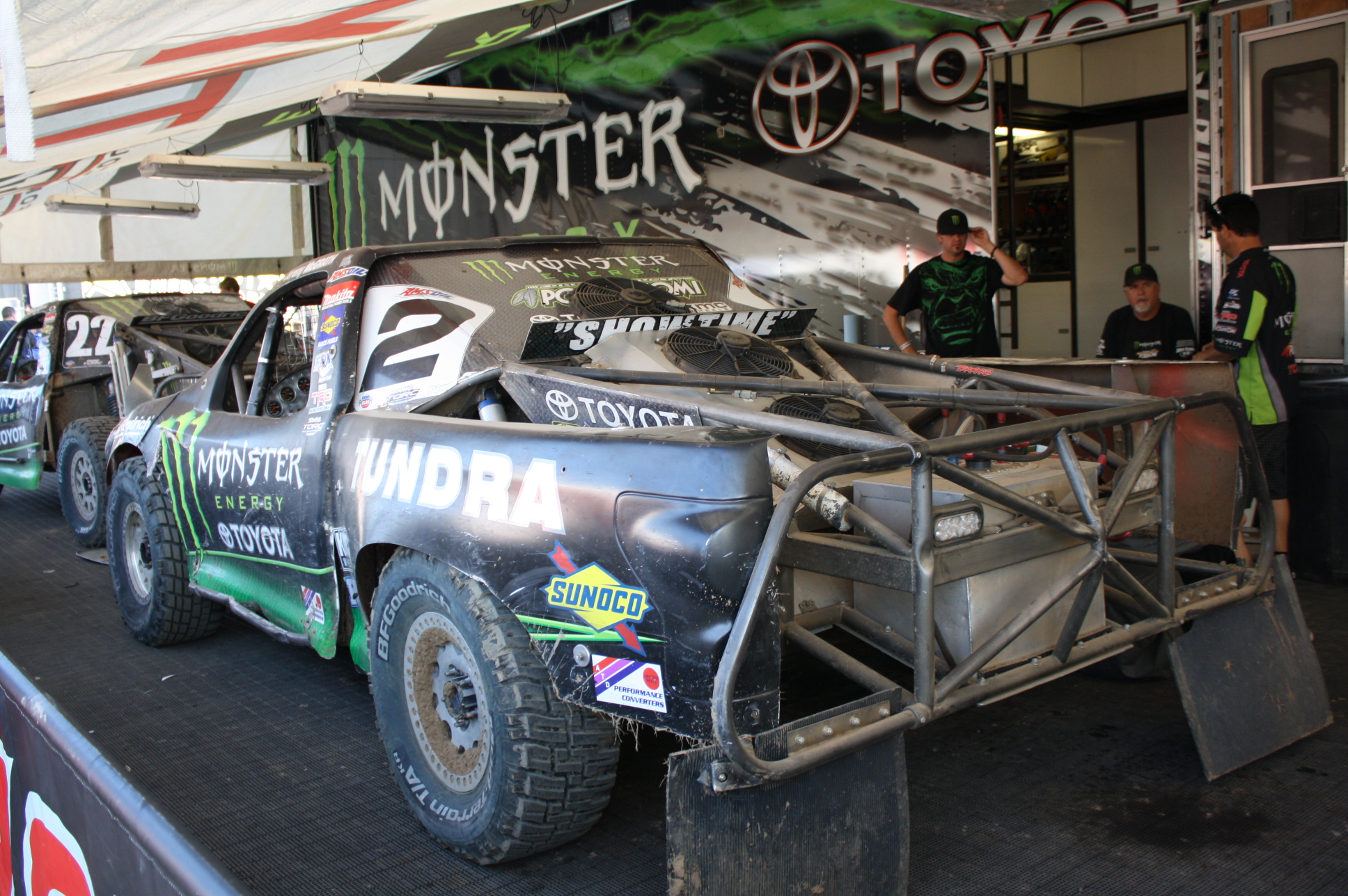 A Jeremy McGrath Trophy Truck at the 2009 BorgWarner World Championship at Crandon International Off-Road Raceway.